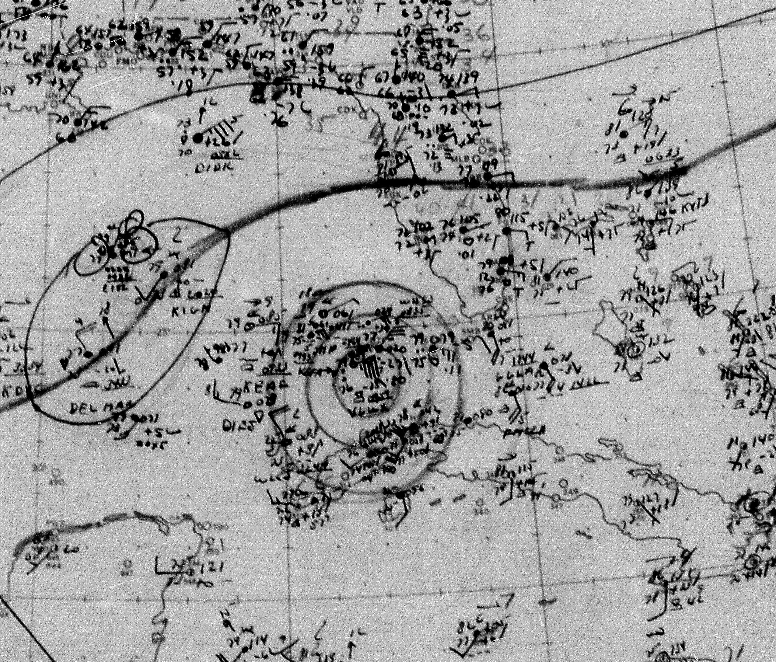 Surface weather analysis of Hurricane Isbell on October 14, 1964 at 12:00 UTC as it was near peak intensity.